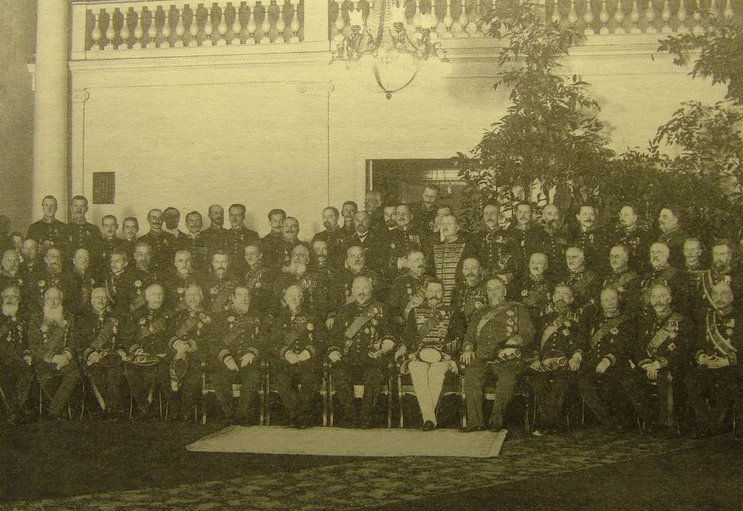 Senat of Russia (1914)